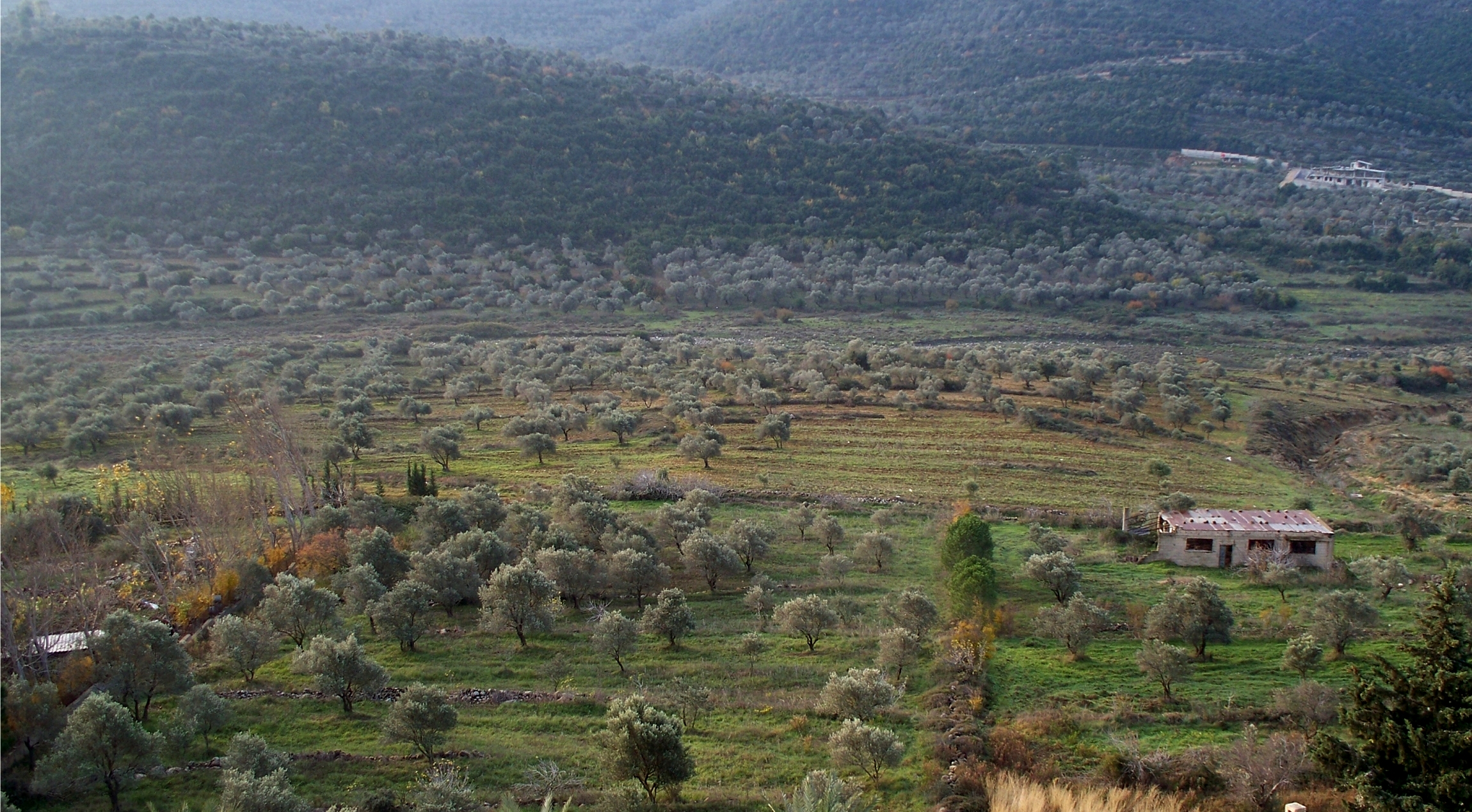 Olive groves — in Hims (Homs) Governorate, western Syria. Photographed in the morning.